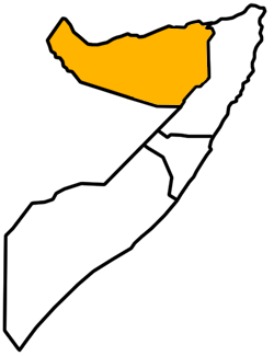 Location of Somaliland